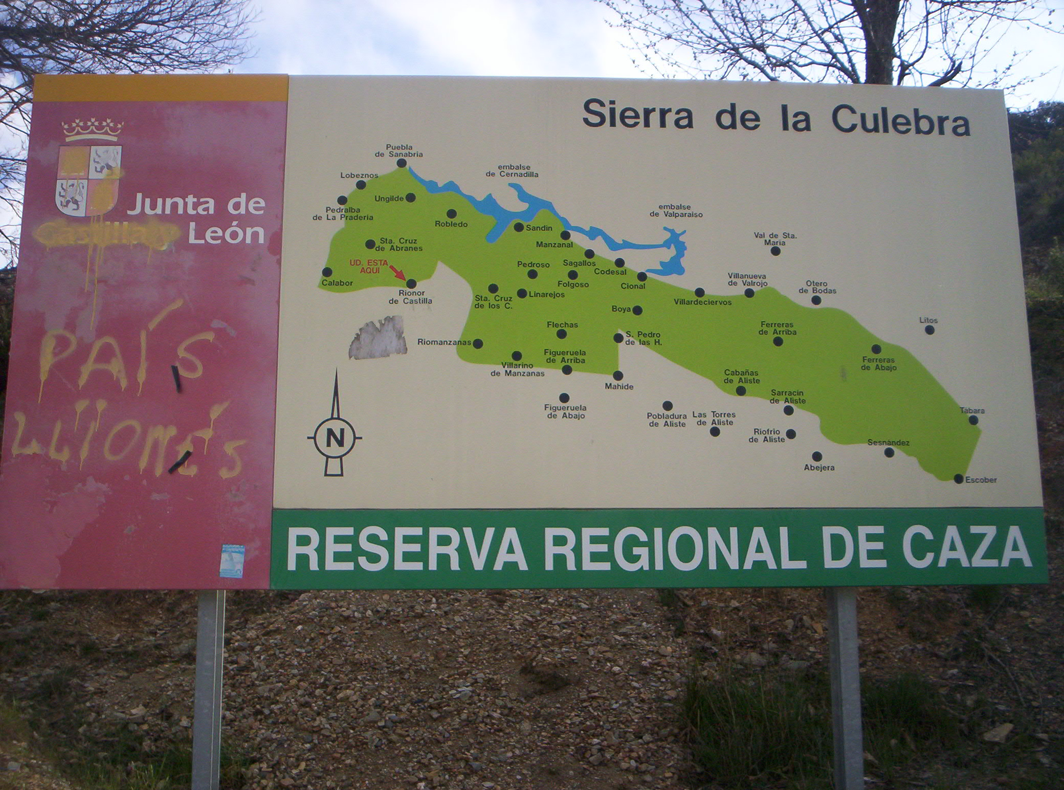 Outdoor at Rihonor de Castilla, Zamora, Spain.